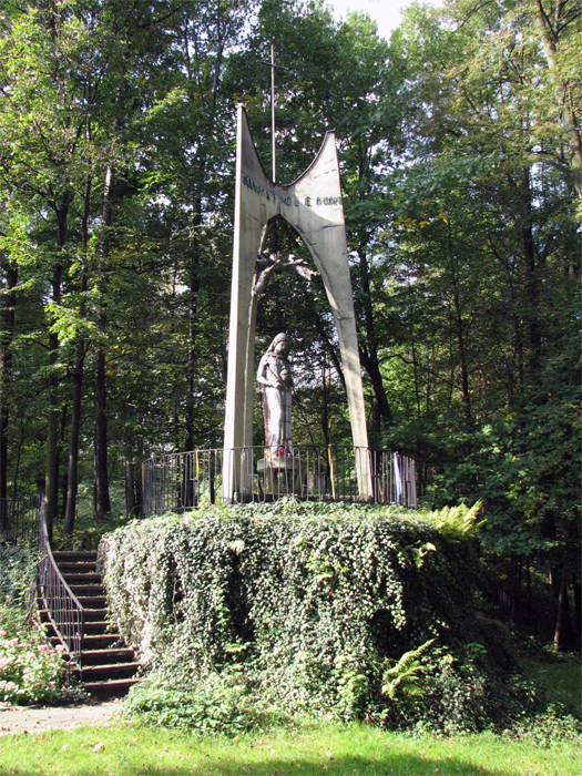 Calvary in Katowice Panewniki, Chapel of the Rosary - The fifth glorious mystery "Coronation of the Blessed Virgin Mary". Completed in 1963.